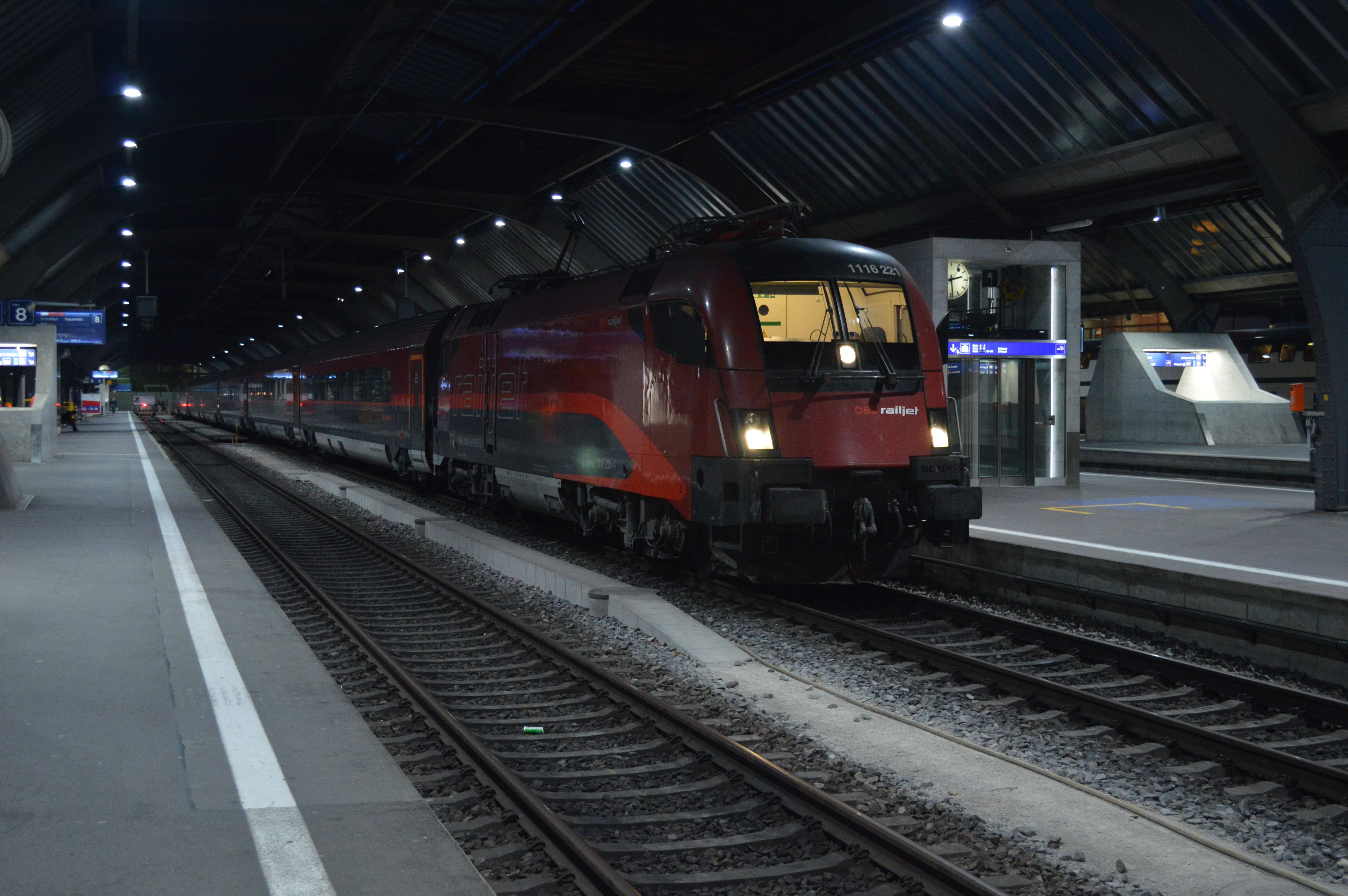 2013 Czech Republic Trip Day One An hour and a half or so at Zürich HB station was a busy and productive time. Stretching the capabilities of modern DSLR cameras to their limits means hand-held photos in stations after dark are easily possible using high ISO settings. However, location-wise Zürich wasn't perfect. Most domestic trains are now push pulled with the loco being at the buffer stops end. Also lighting wasn't perfect. But there is scope for the future. Being late in the day, many international trains that terminated at Zürich sat in the platforms for a prolonged period. Seen here is ÖBB no. 1116.221 with a "Railjet" push-pull set which would have come in from Wien Westbahnhof. Date taken, 11 May 2013.